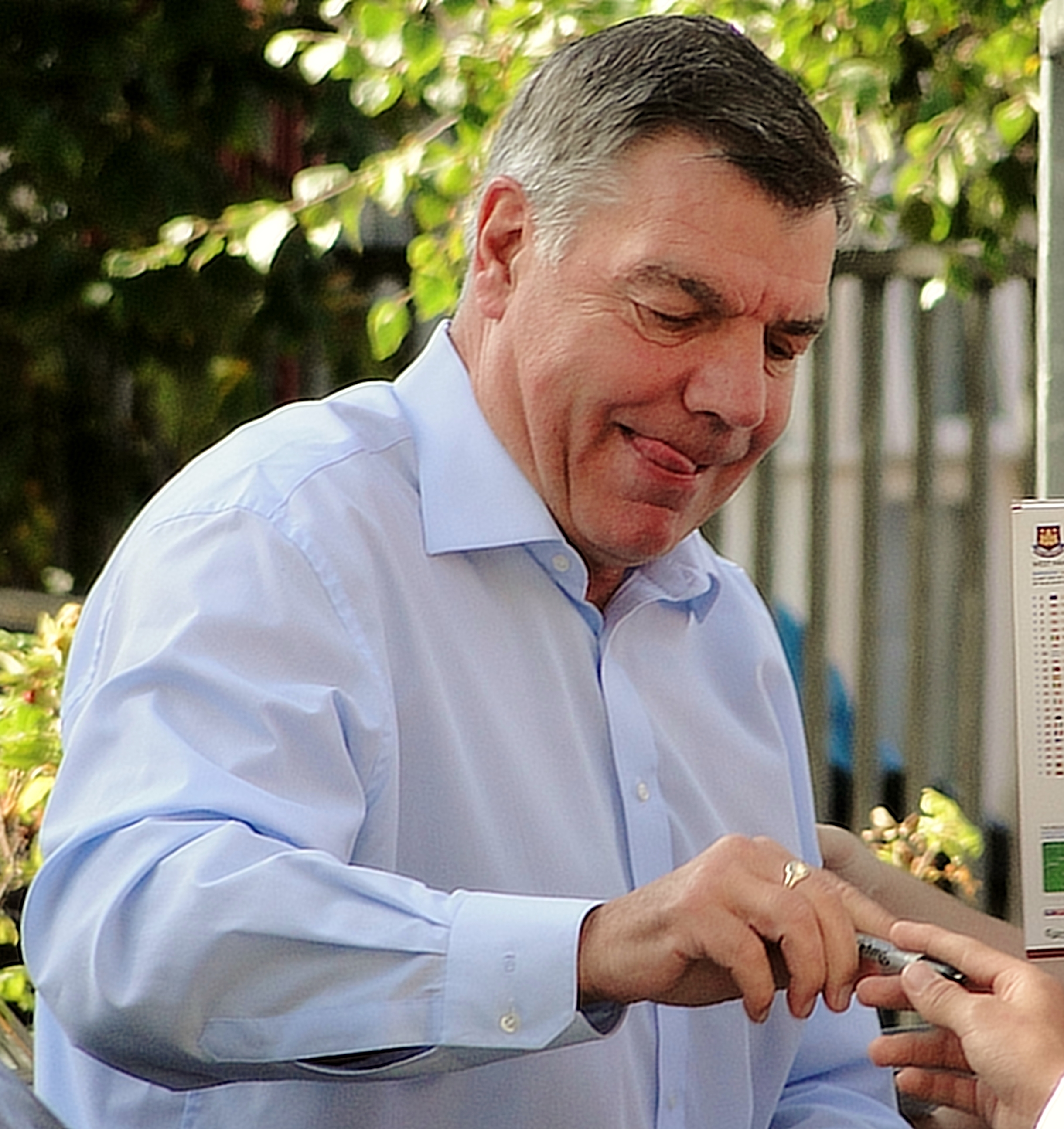 West Ham United manager, Sam Allardyce, signing autographs for fans at the Boleyn Ground before West Ham's win against Queens Park Rangers, October 2014.